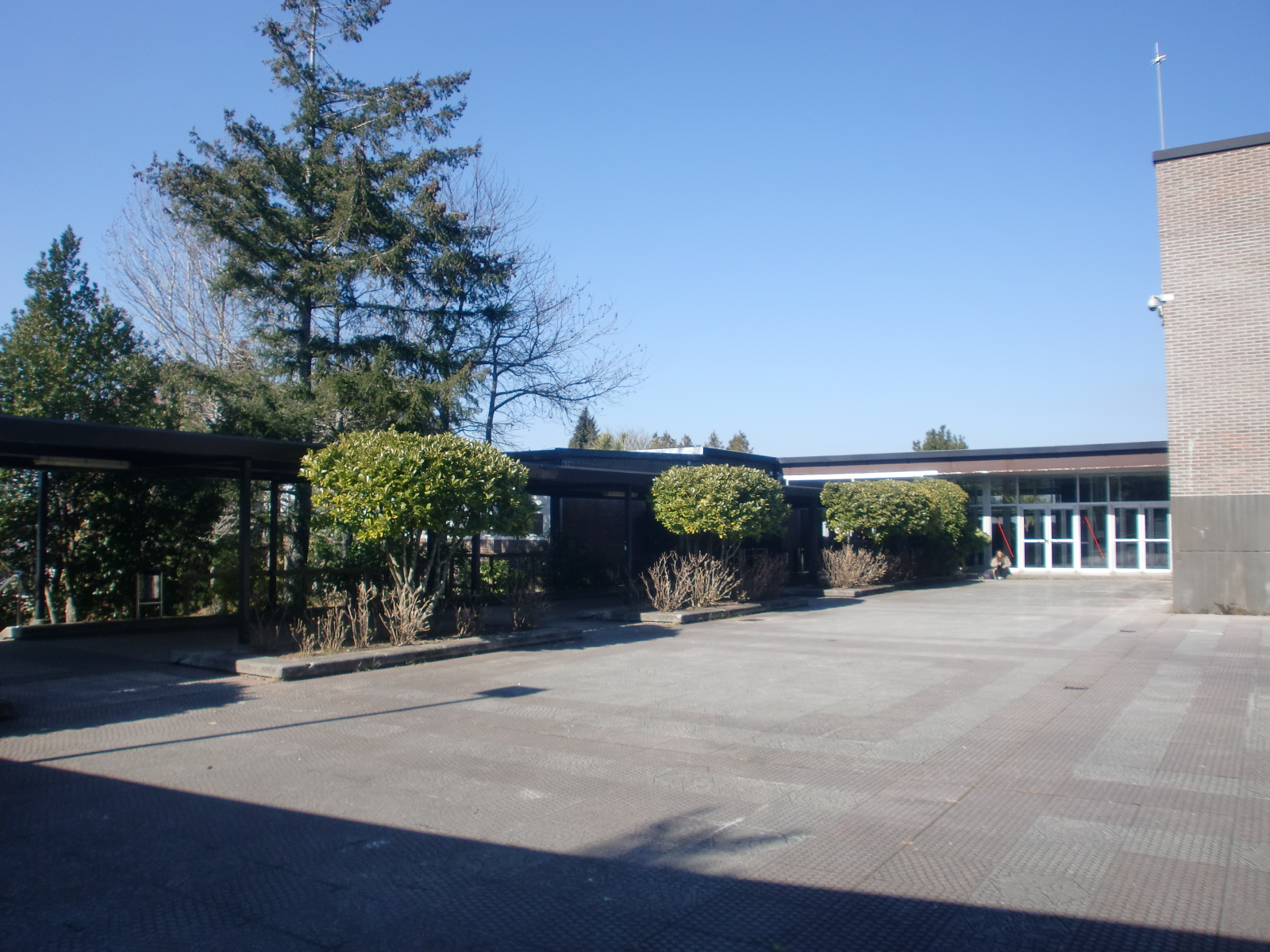 Philology and translation (University of Vigo)